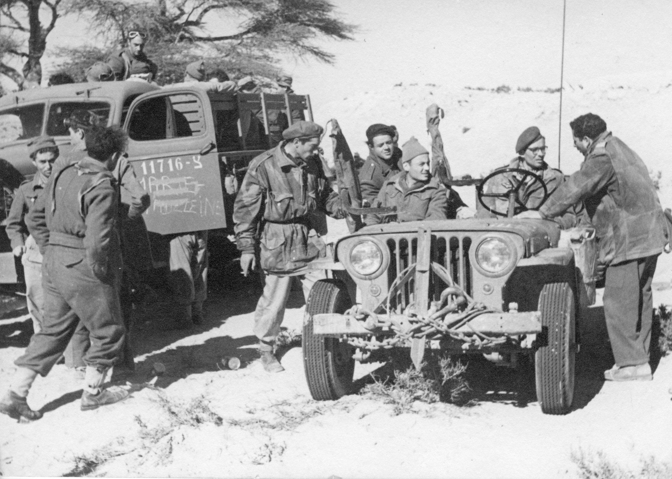 The Palmach, Israel Defense Forces